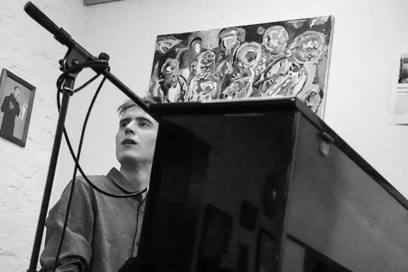 Elias Stemeseder in Aarhus Denmark 2016